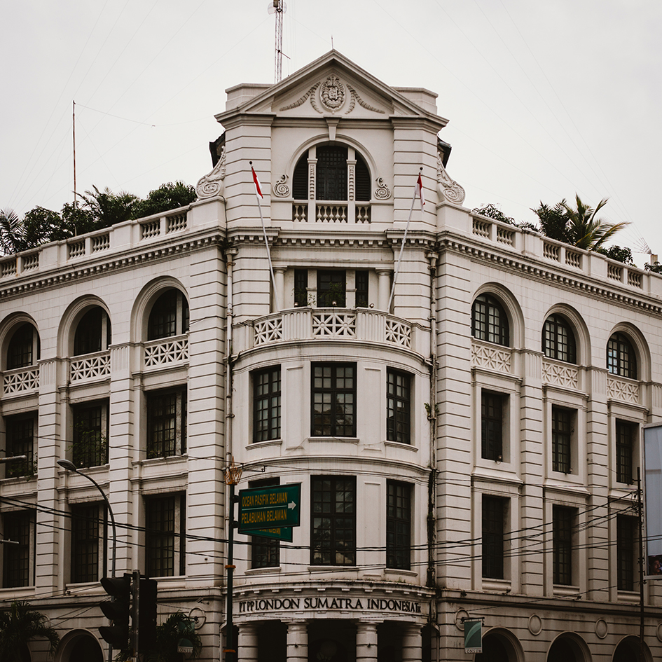 Most Iconic Building in Medan